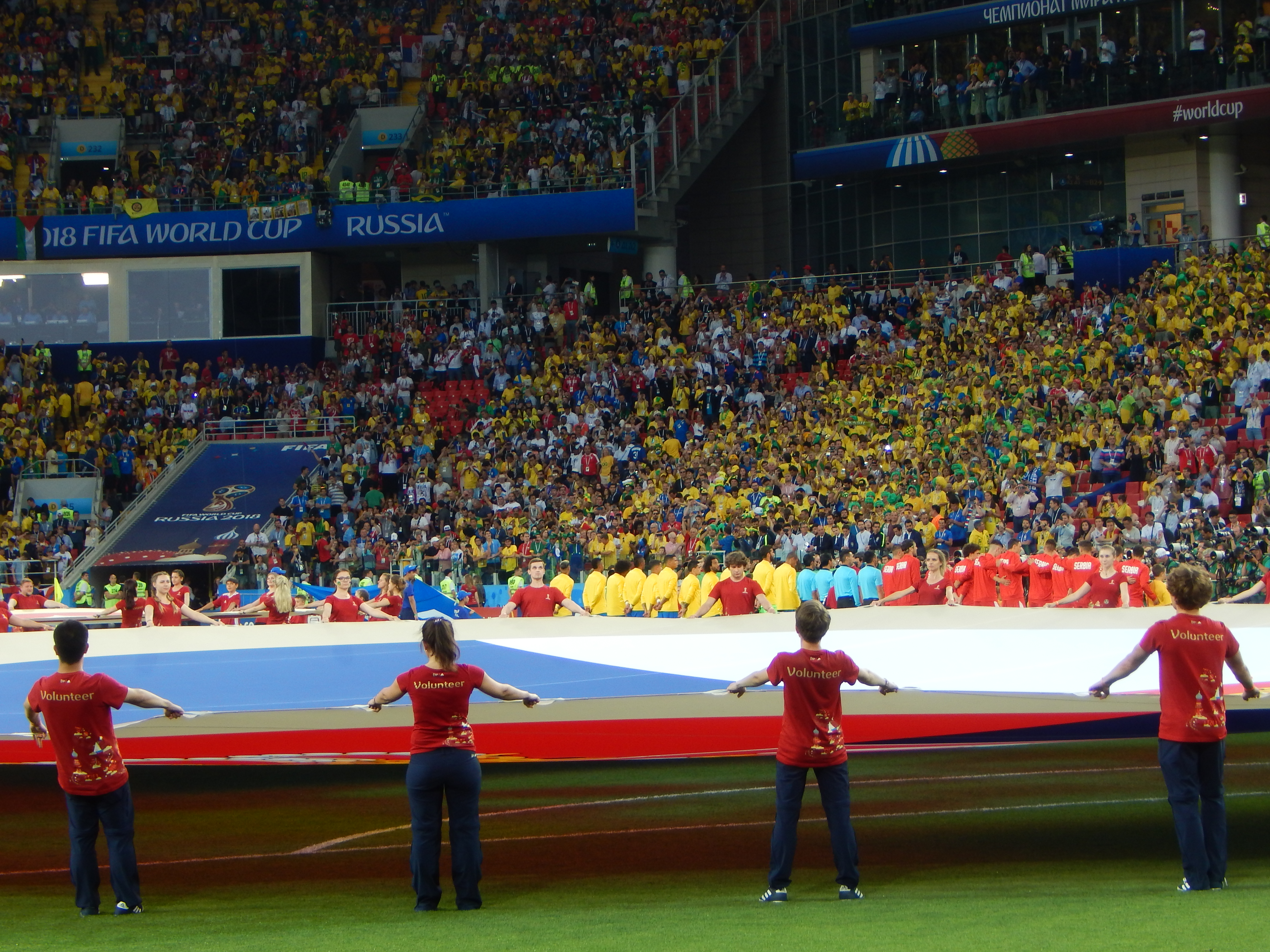 FIFA World Cup 2018, Group E, Serbia vs. Brazil